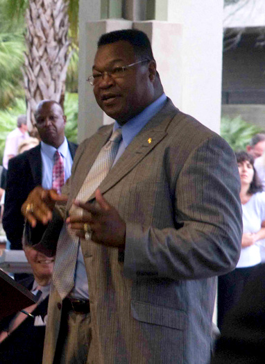 Larry Holmes at the venue where Joe Frazier was awarded the Order of the Palmetto in Beaufort, South Carolina, United States.